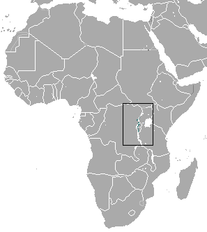 Ruwenzori Shrew (Ruwenzorisorex suncoides) range